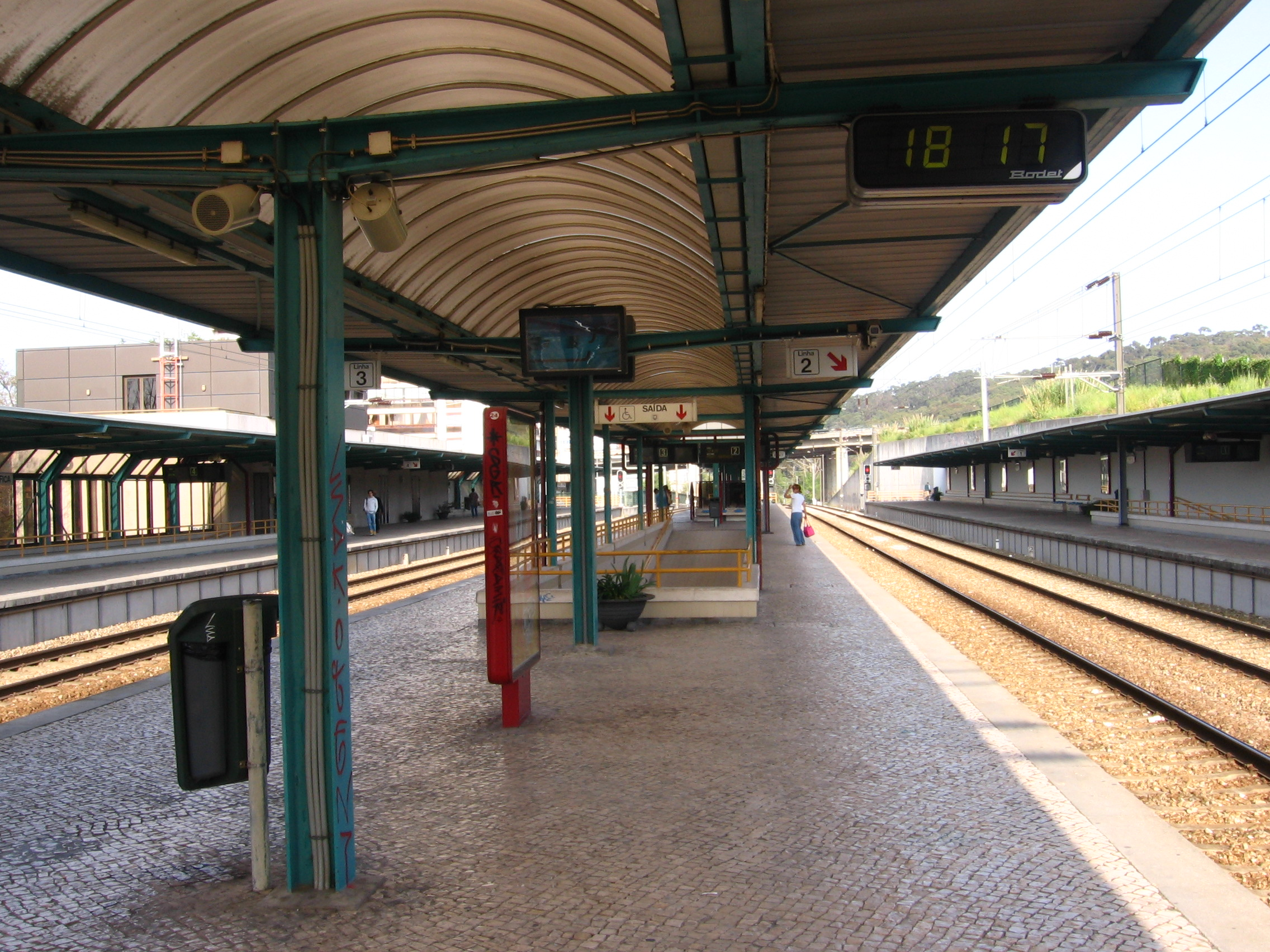 the suburban train station Benfica, Lisbon, Portugal